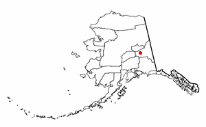 Adapted from Wikipedia's AK borough maps by Seth Ilys.